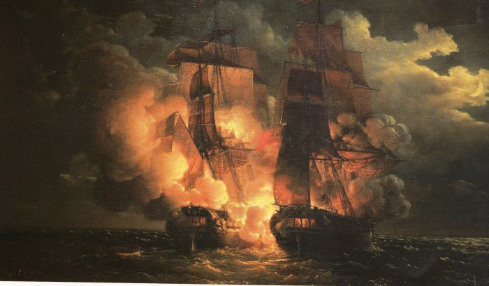 A depiction of the battle between the French frigate Aréthuse and the H.M.S. Amelia off the shores of Guinea, 7 February 1813.